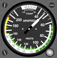 The full indicator speed of an aircraft.